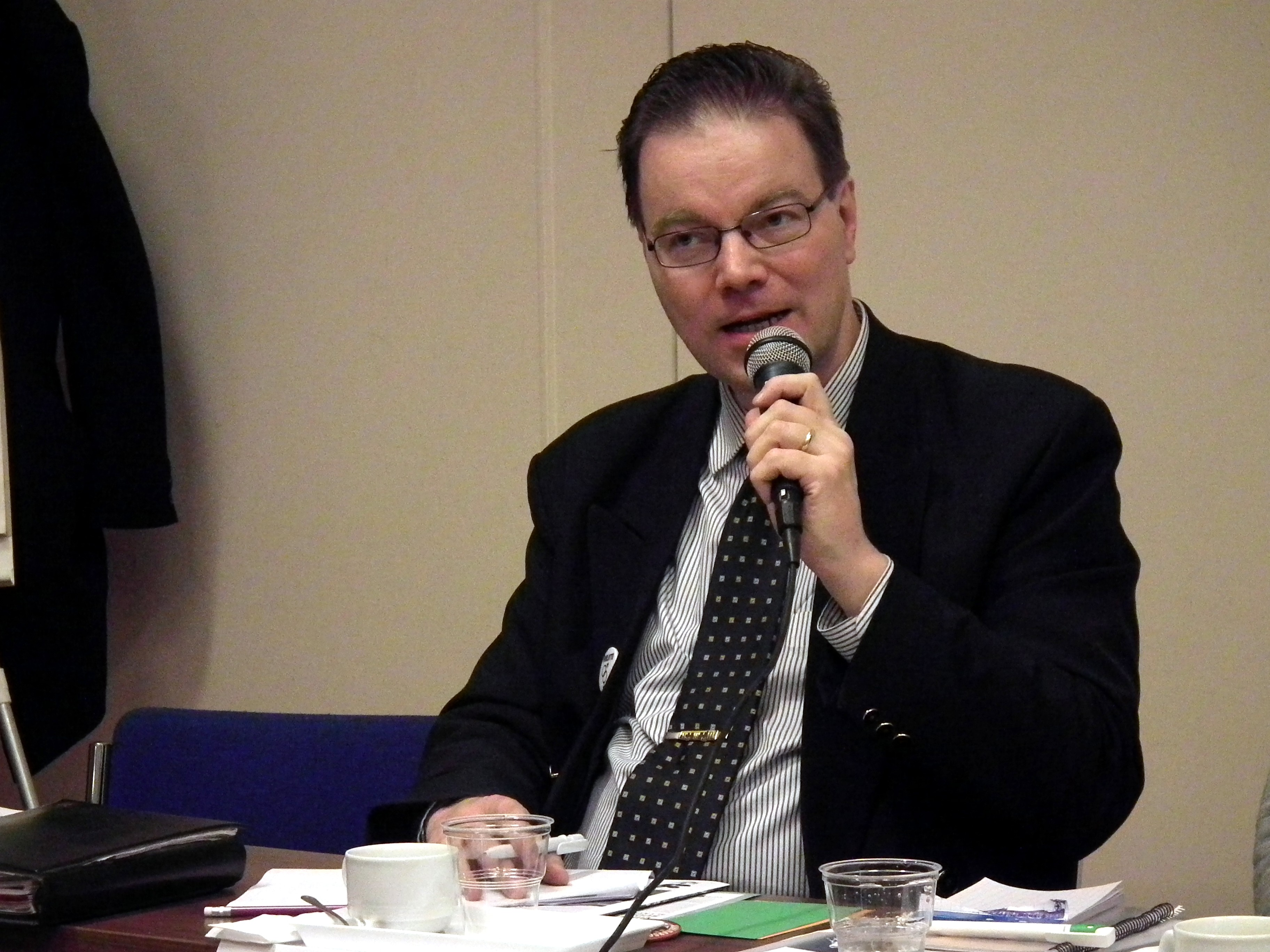 Finnish politician Mika Ebeling